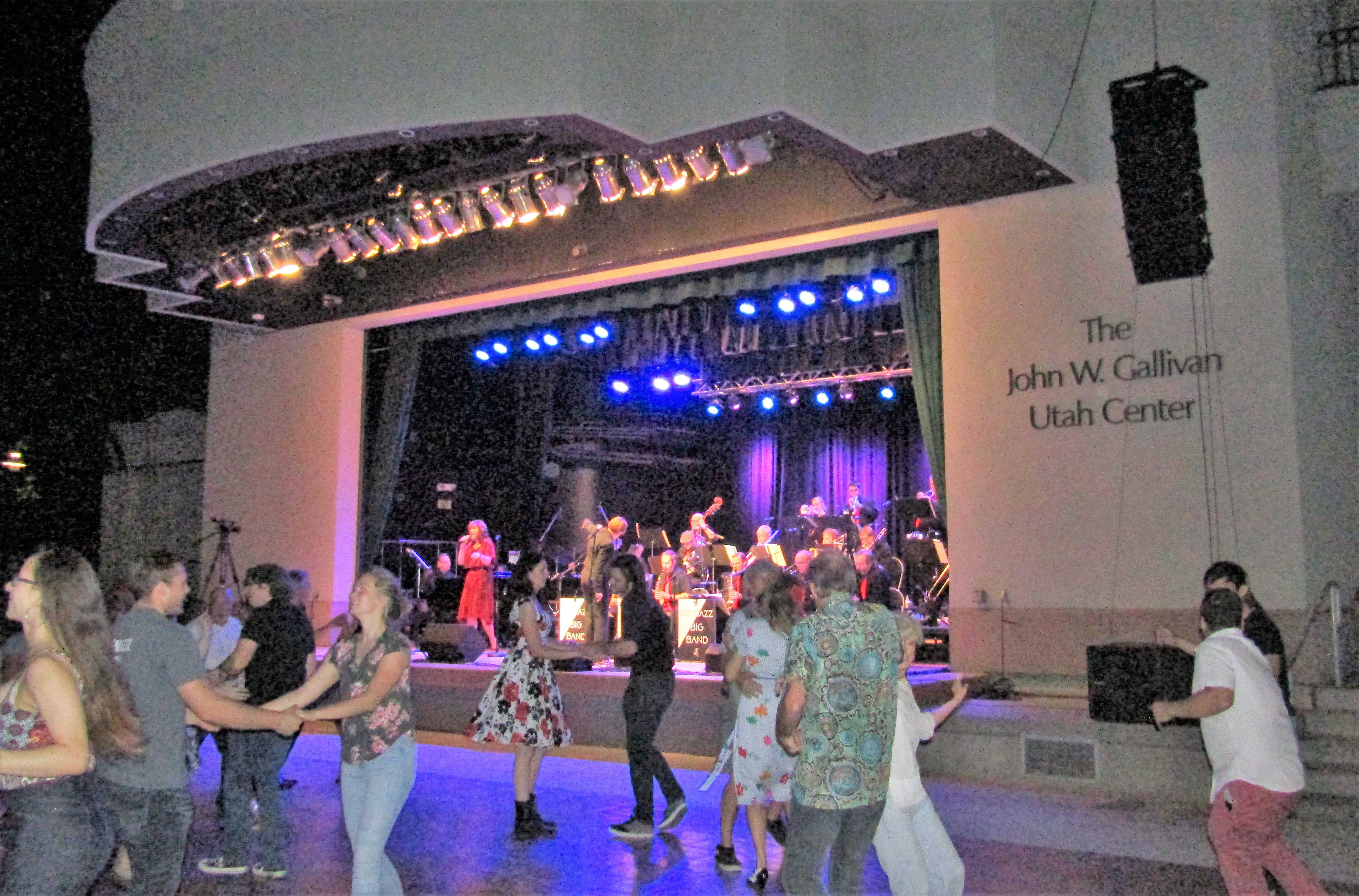 A dance at the John W. Gallivan Utah Center.